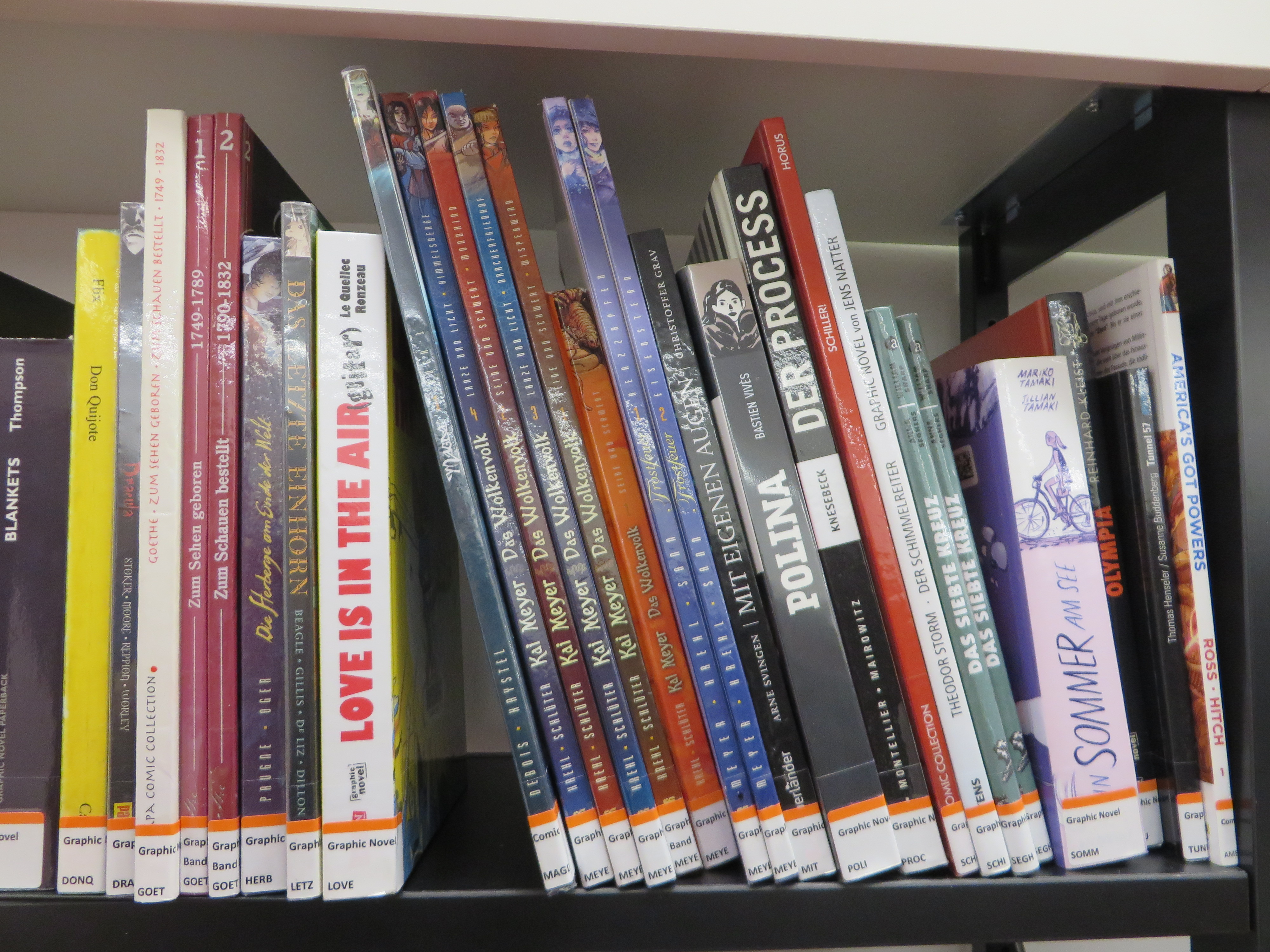 Graphic novels at Zentralbibliothek Witten, Germany